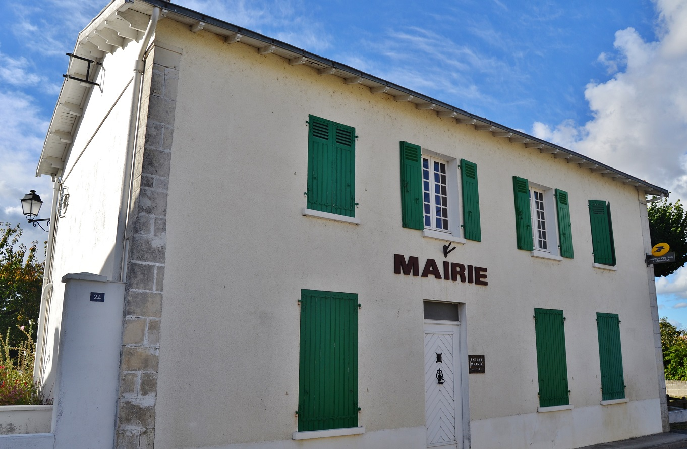 La Mairie